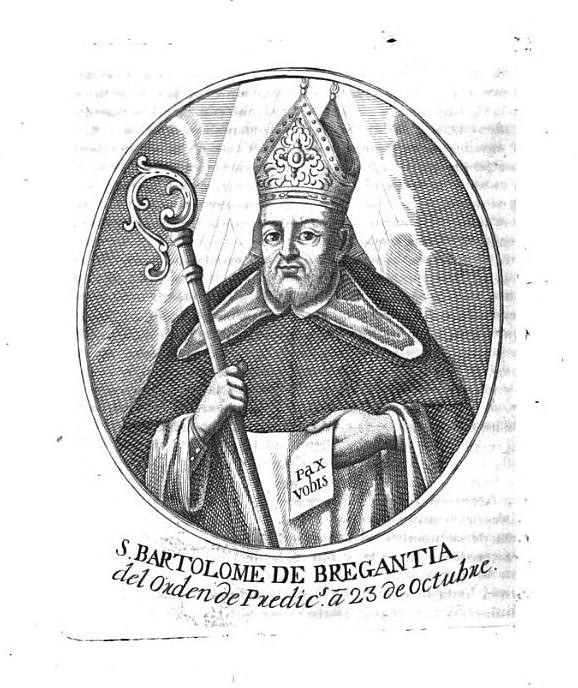 Saint Bartolome de Bregantia